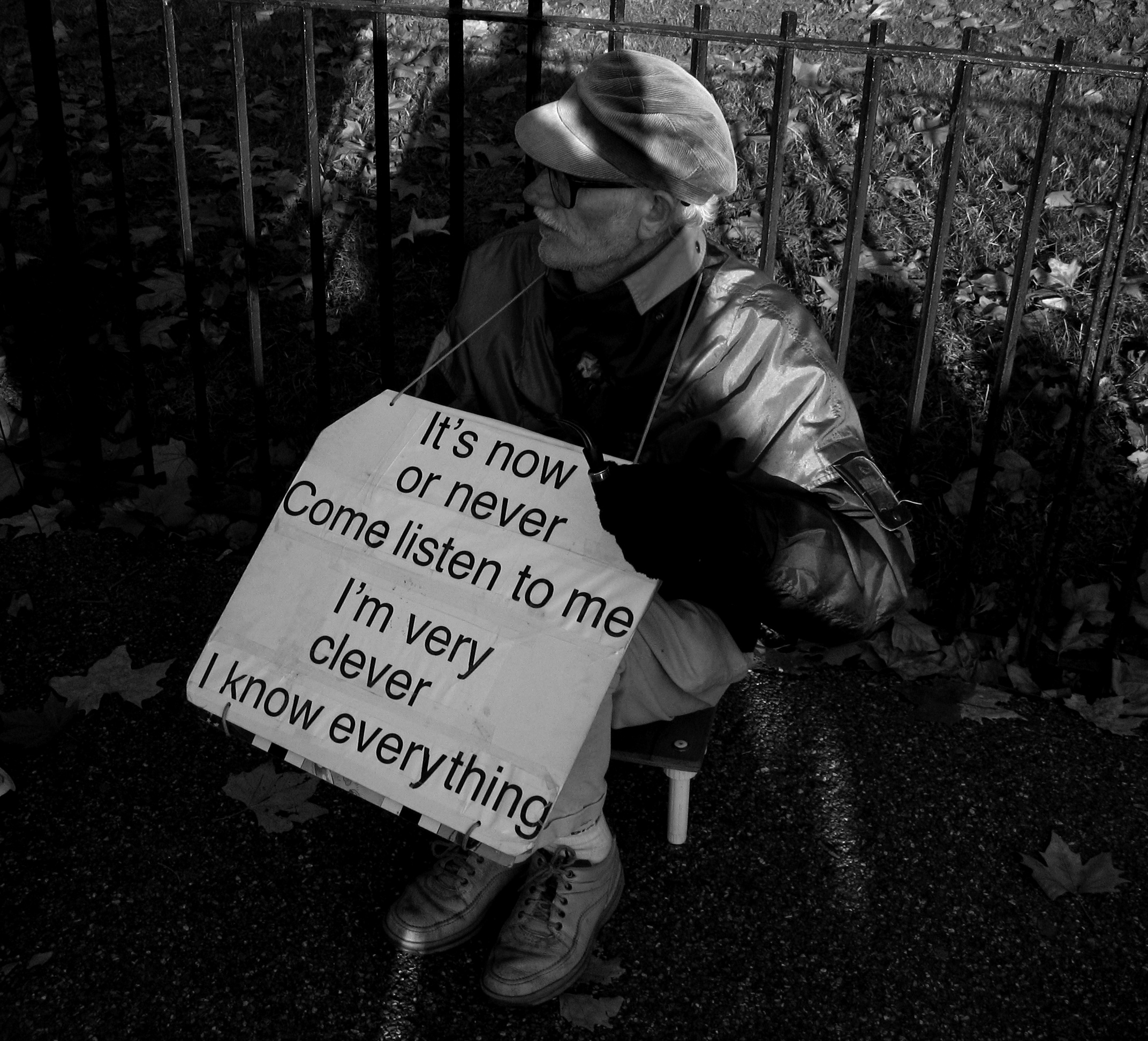 black and white, speakers' corner, hyde park, city of westminster